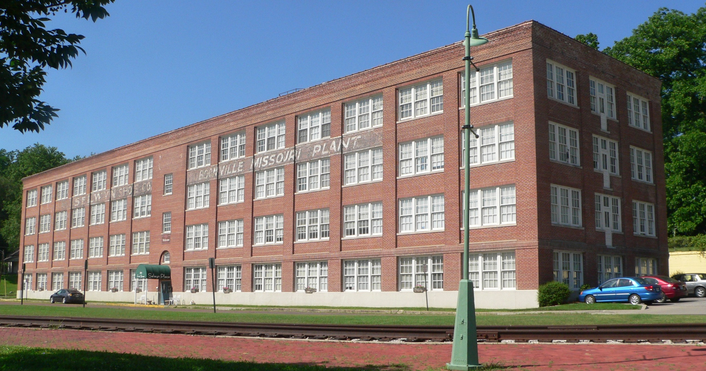 Selwyn Place Apartments, located at 301 1st Street in Boonville, Missouri; seen from the northeast.